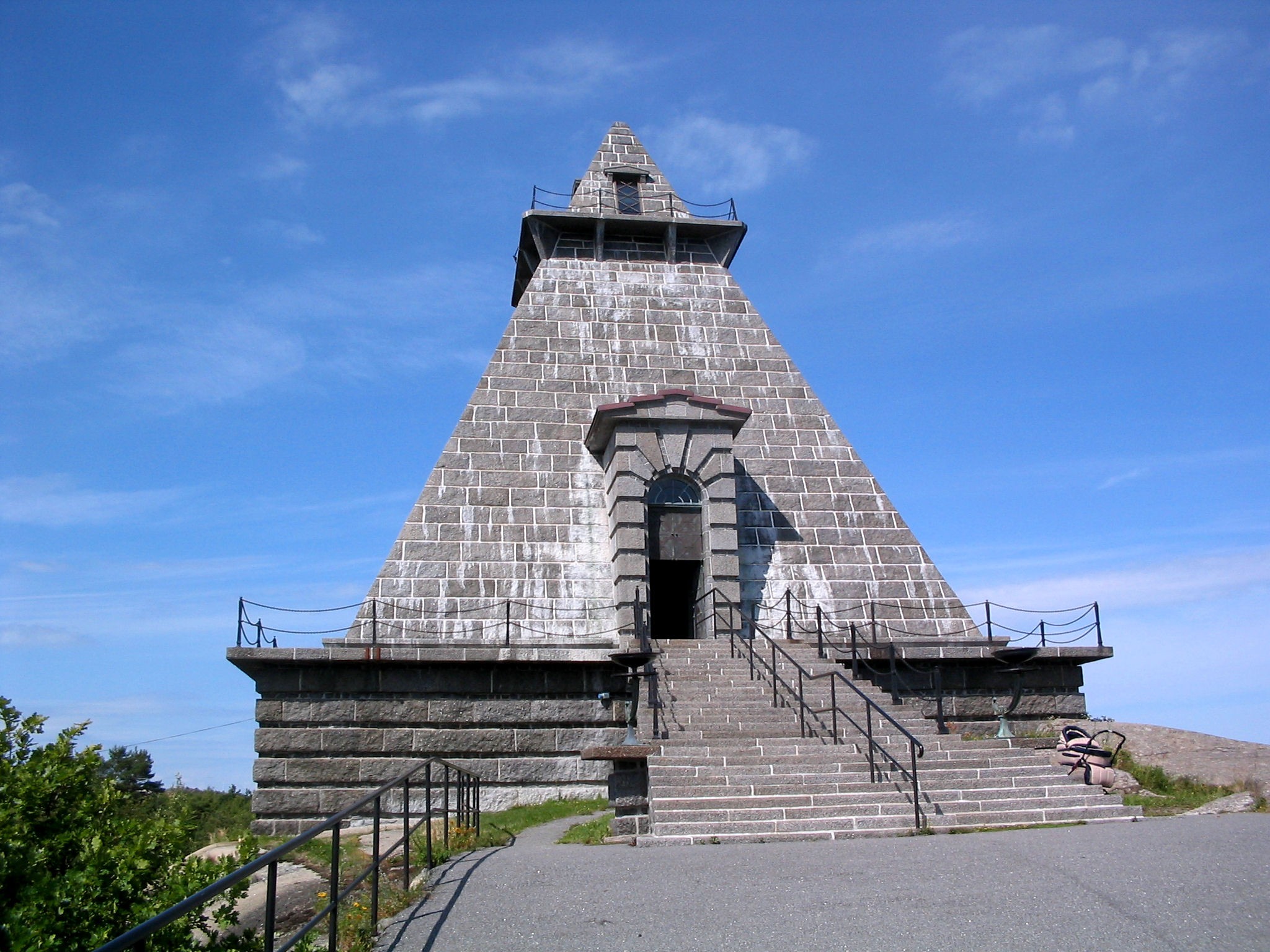 Minnehallen in Stavern, Norway. National monument for the sailors killed during WW1 and WW2. Built in 1926.